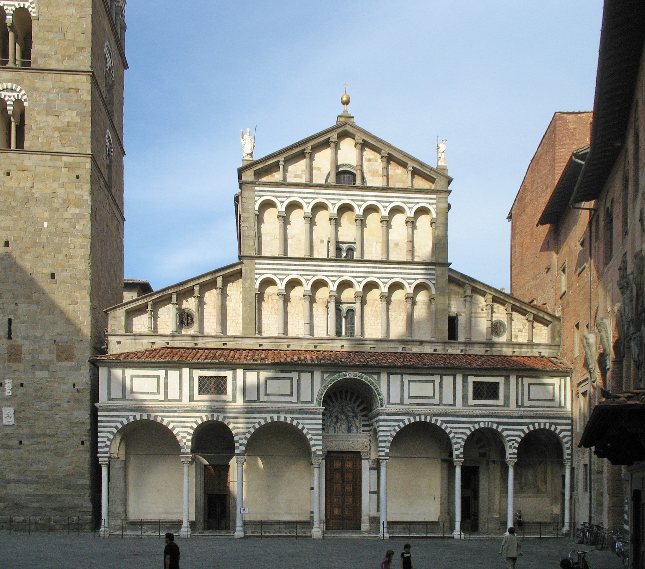 Pistoia (Italy)